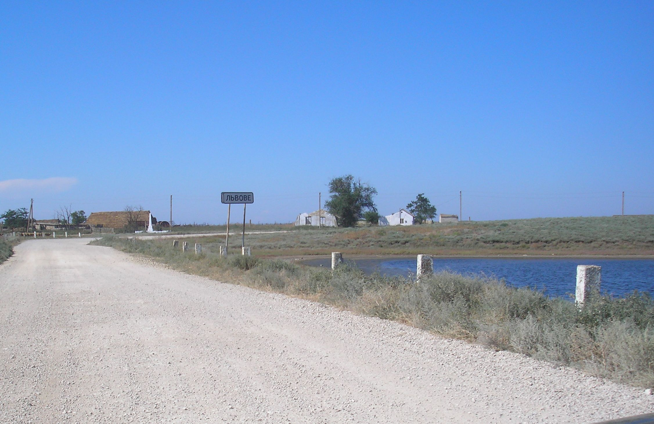 Village Lvovo, Leninskiy Raion, Crimea